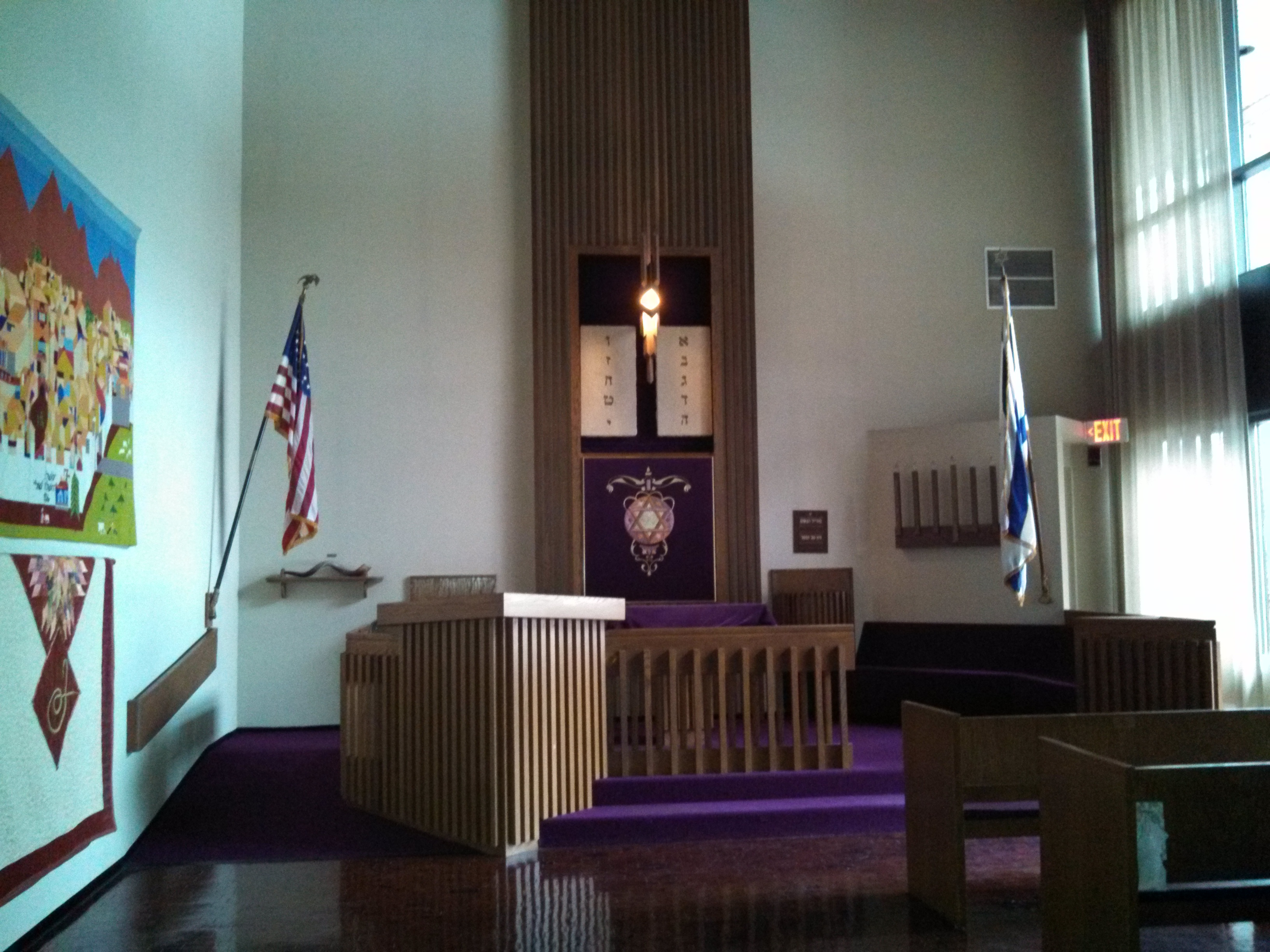 Chapel of the Jewish Healthcare Center at 629 Salisbury Street in Worcester, Massachusetts, USA on February 2, 2014